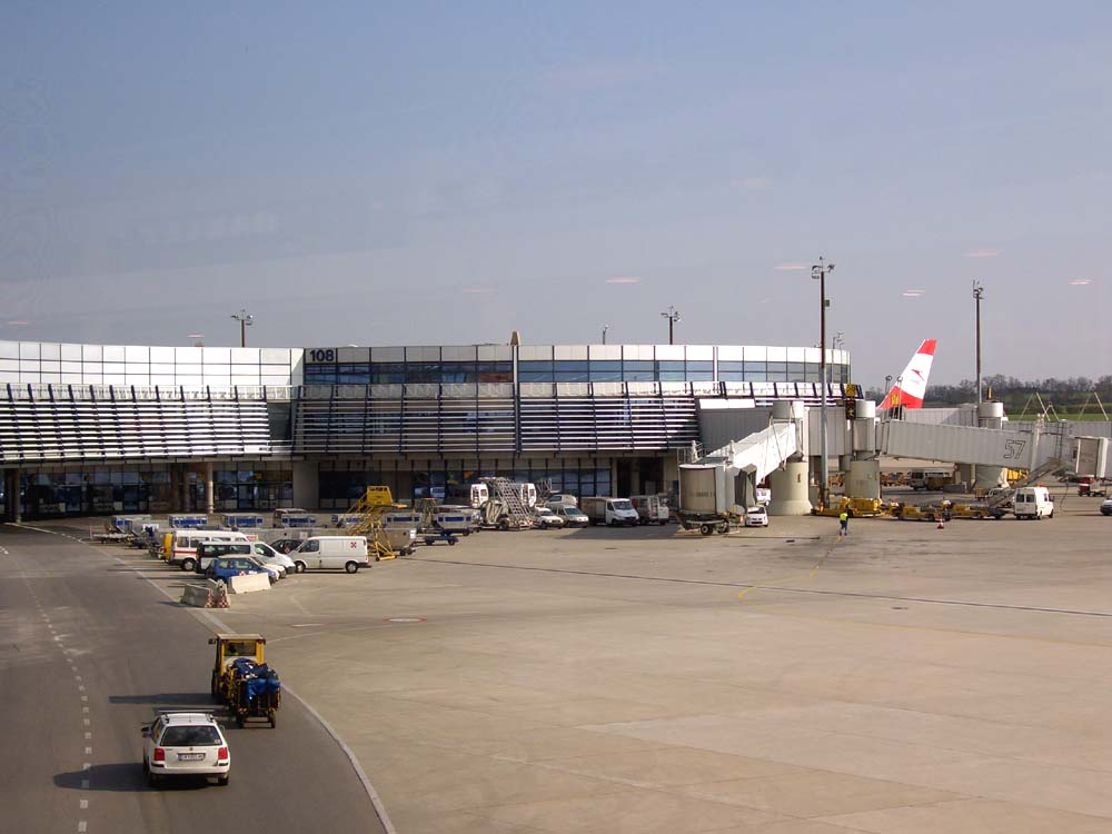 Exterior view of concourse A for non-Schengen flights